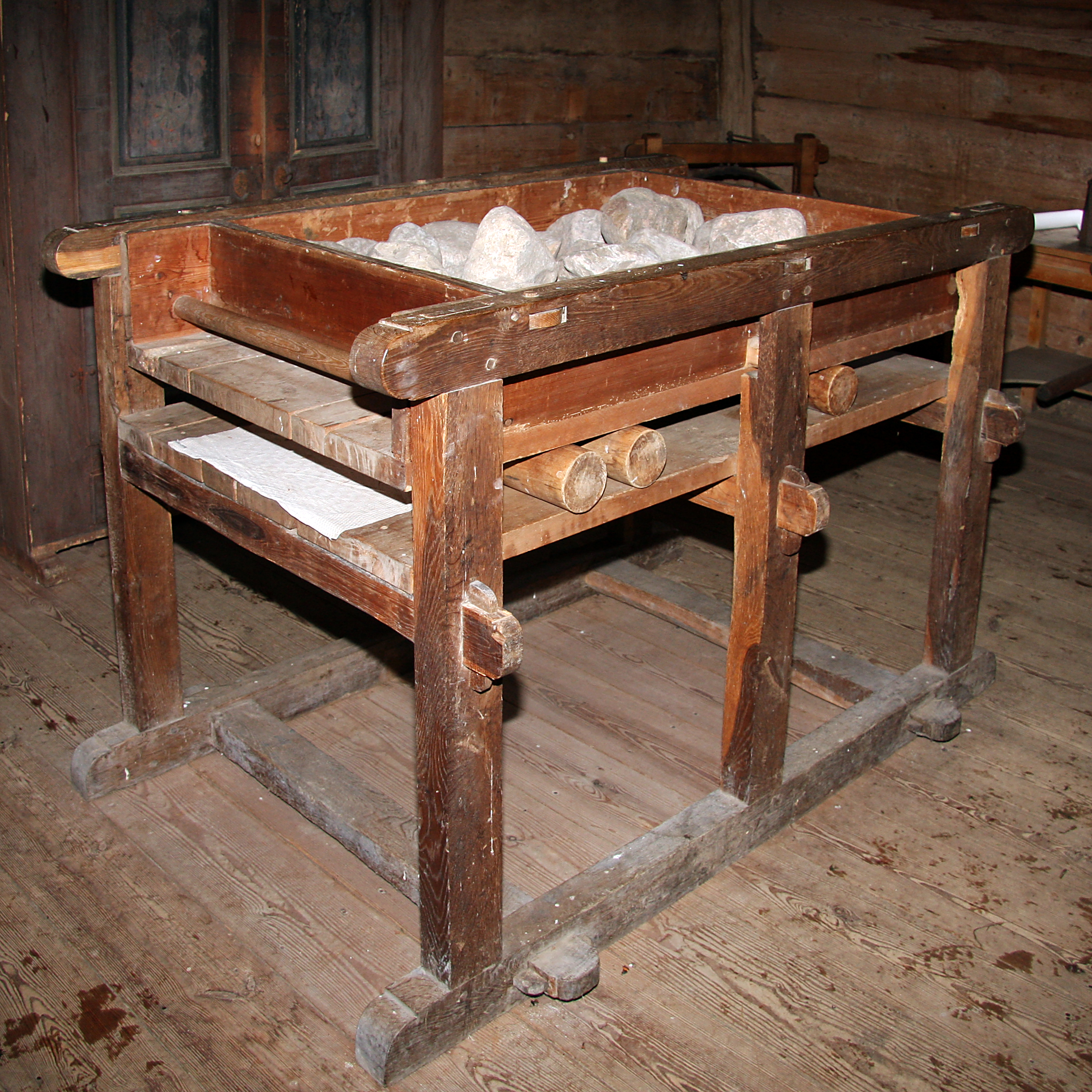 Box mangle kept at the Ingeborrarp museum in Örkelljunga municipality in southern Sweden.